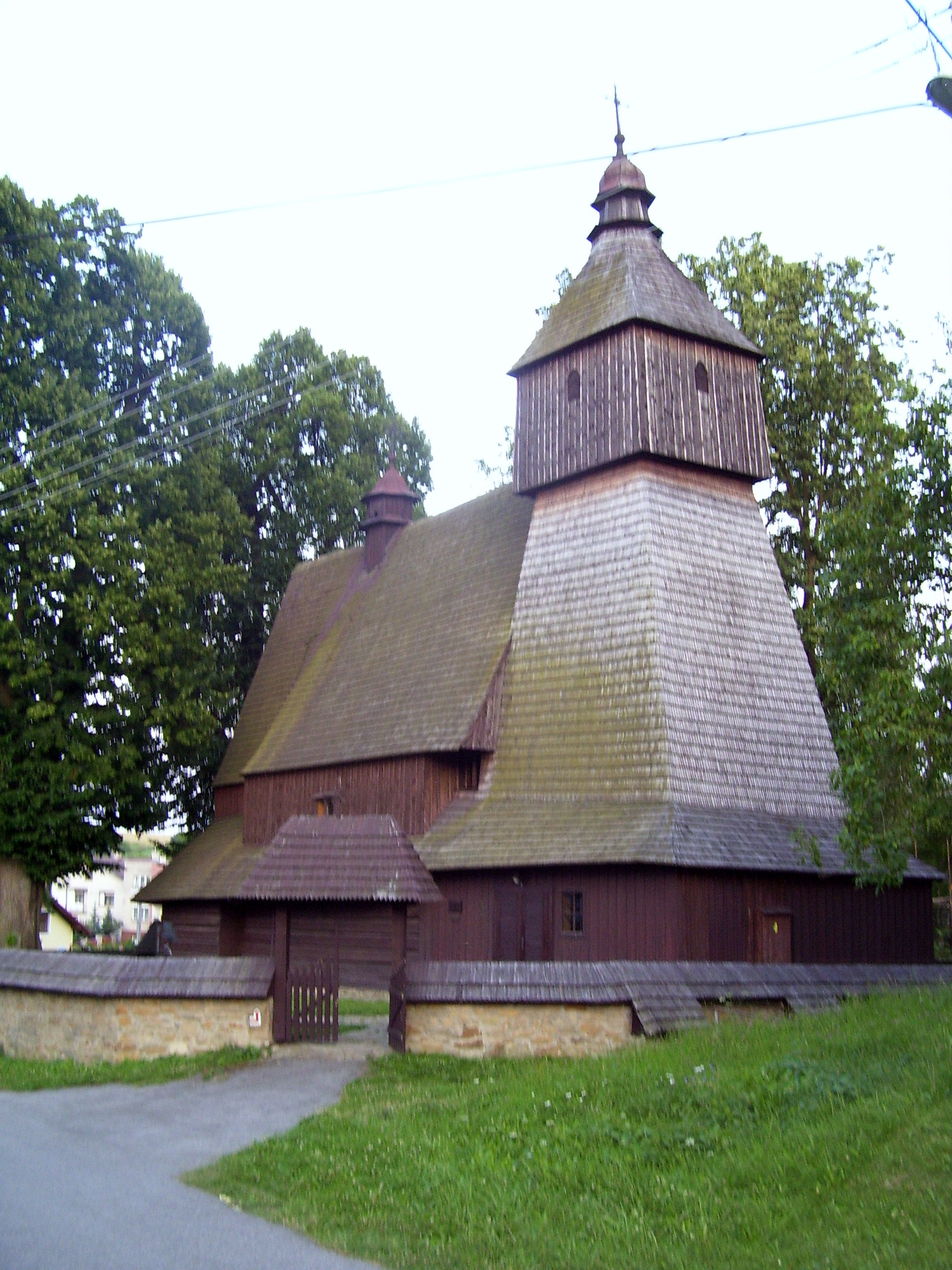 Church of St Francis of Assisi, Hervartov, Bardejov, Prešov, Slovakia.